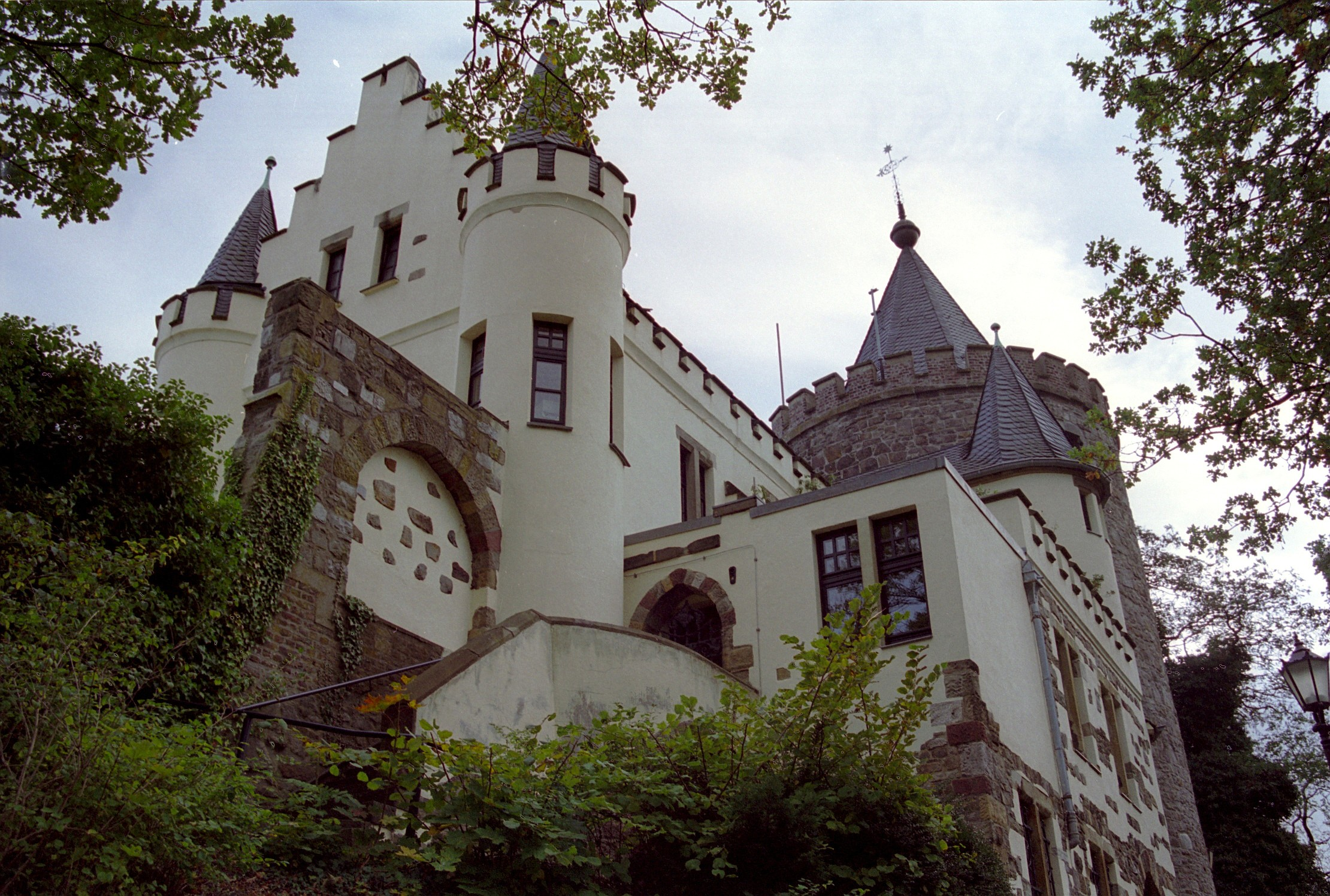 North-western view of Castle Rode in Herzogenrath, Germany